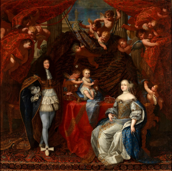 Portrait of Carlo Emanuele II and his wife Maria Giovanna of Savoy and their son Vittorio Amedeo (1666-1732)